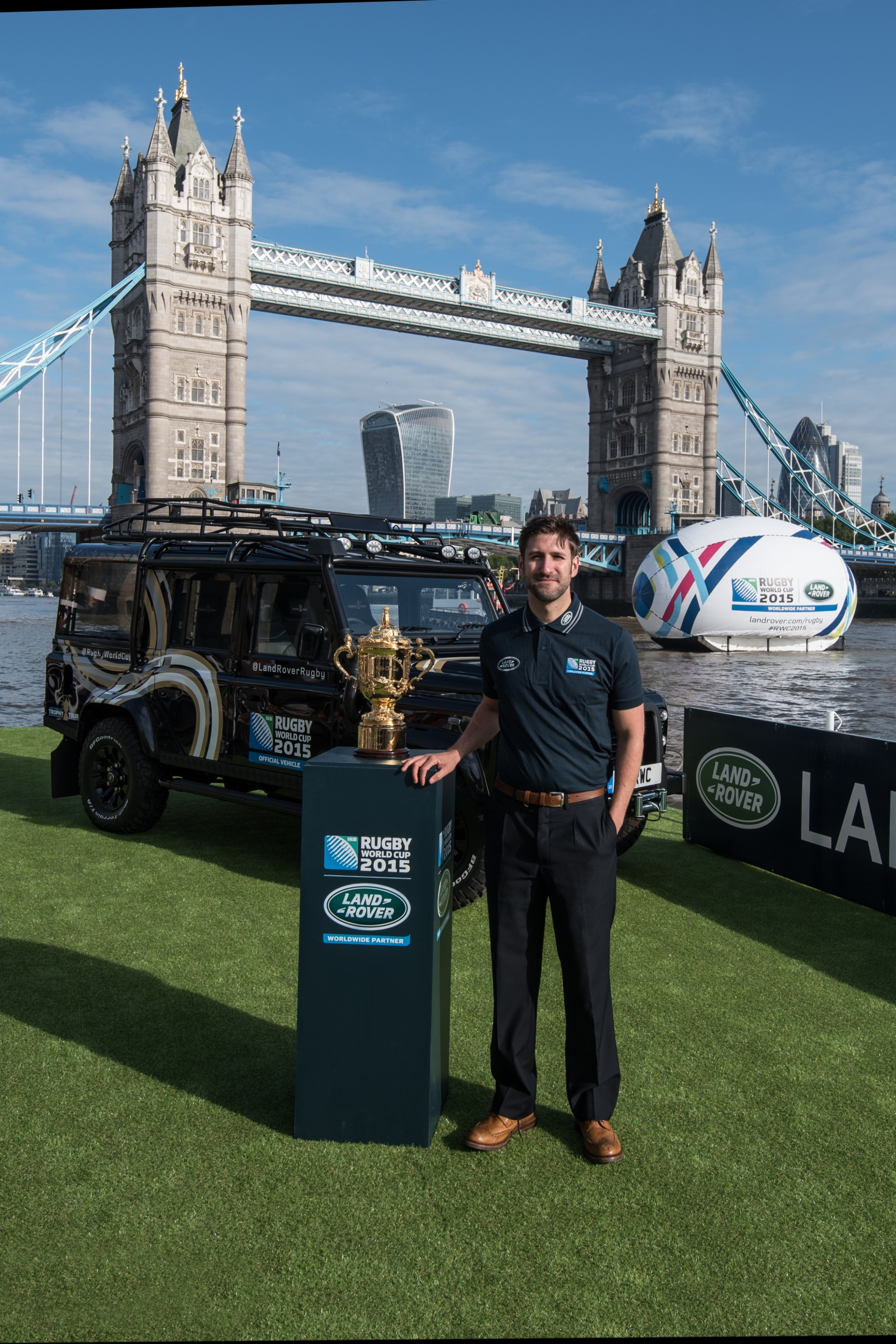 Land Rover reveals unique Defender to carry Rugby World Cup trophy